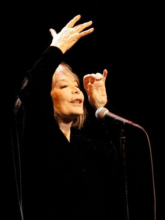 Juliette Gréco by Victor Diaz Lamich